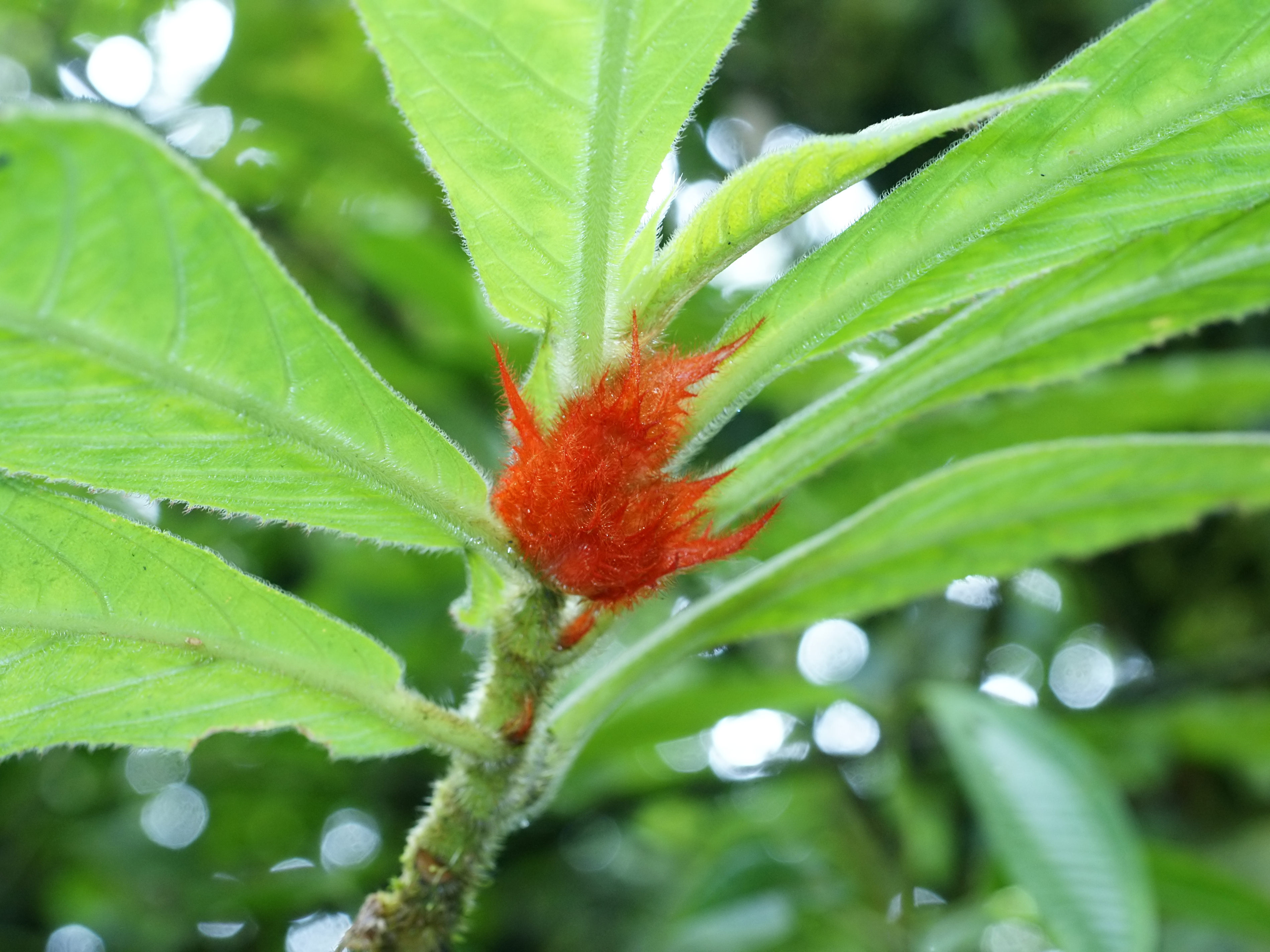 Plant at Rara Avis, near Las Horquetas, Costa Rica.